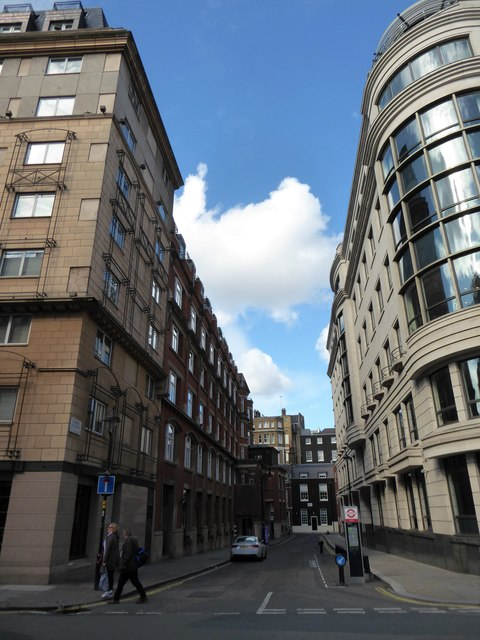 Clarges Street- looking towards Clarges Mews